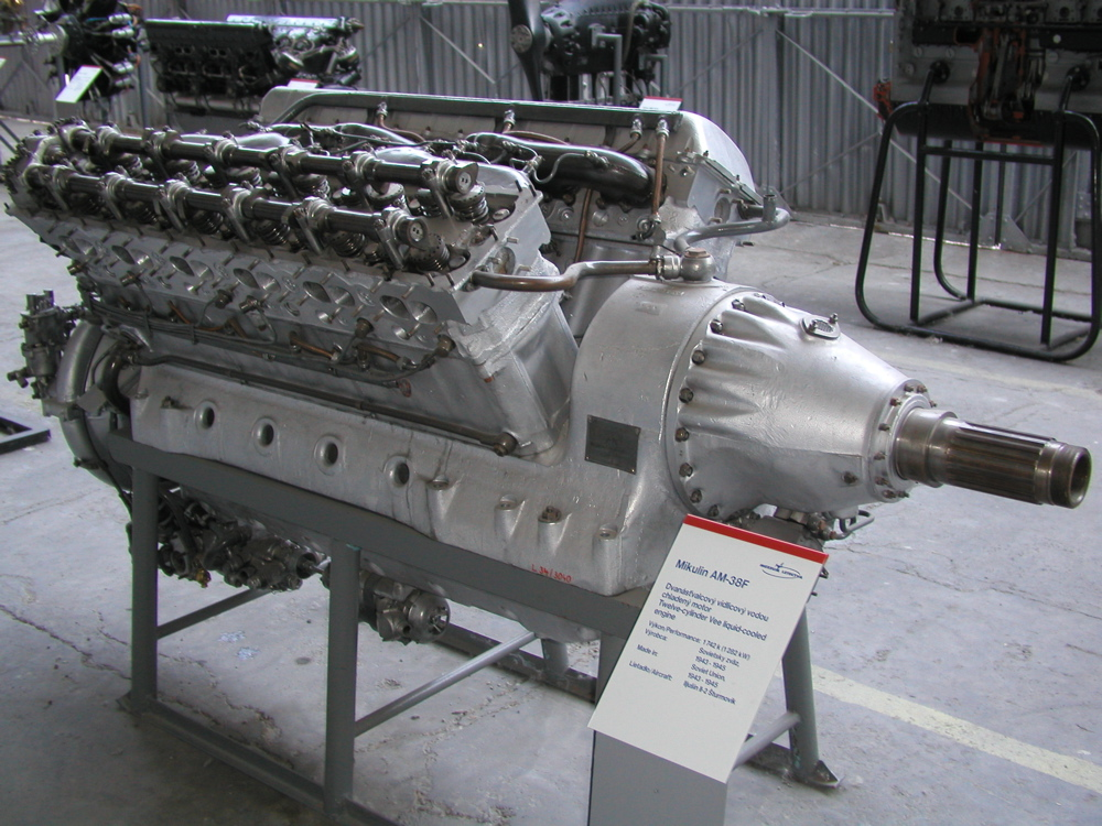 Mikulin AM-38F aircraft piston engine (Soviet Union). Displayed at the Aviation Museum in Kosice, Slovakia.